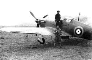 Flying Officer R N Cullen of No. 80 Squadron RAF, preparing to take off from Paramythia, Greece, in Hawker Hurricane V7288 on the morning of 4 March 1941, as part of a fighter escort for bombers attacking Italian warships off the Albanian coast. During a resulting dogfight with Italian fighters, Cullen, flying as No. 2 to Flight Lieutenant M St J 'Pat' Pattle, was shot down and killed near Himare. At the time of his death, Richard Nigel Cullen, known as 'The Ape' because of his large physique, was credited with 16½ victories.